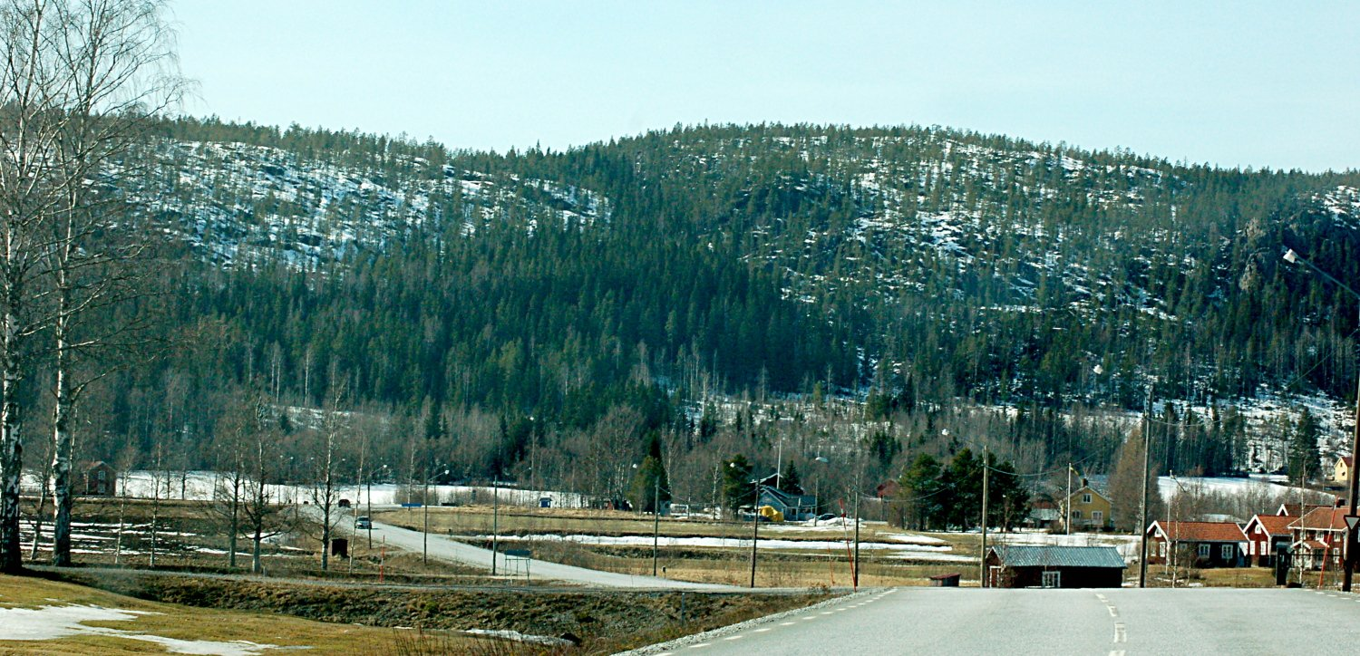 Mount Vallberget, Sweden.